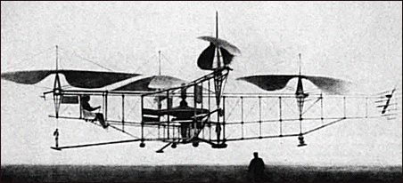 Étienne Oehmichen Helicopter No. 2, 1923-1924. On May 4 1924, it was the first helicopter to fly on the distance of one kilometer (0.6 mile) in a closed-circuit, landing at his starting point.